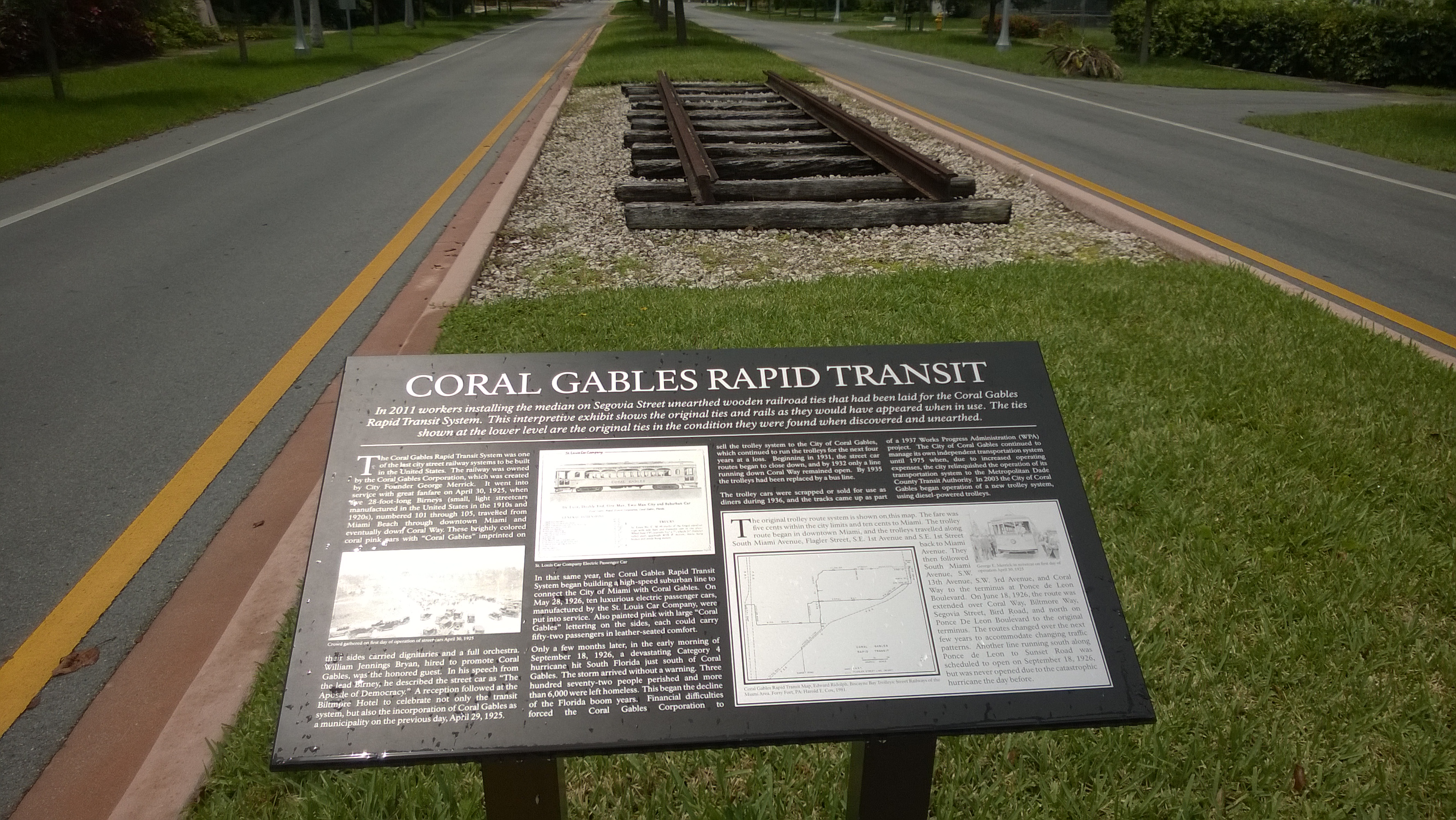 This isn't quite a museum or memorial. It's a plaque commemorating an incidentally unearthed section of historic street car/interurban track in Coral Gables, Florida. Taken with a Windows Phone on a cloudy day, it's clarity and color balance make me question why I even have a DSLR.